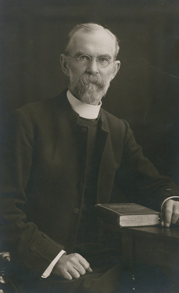 Portrait of Gilbert White (bishop).